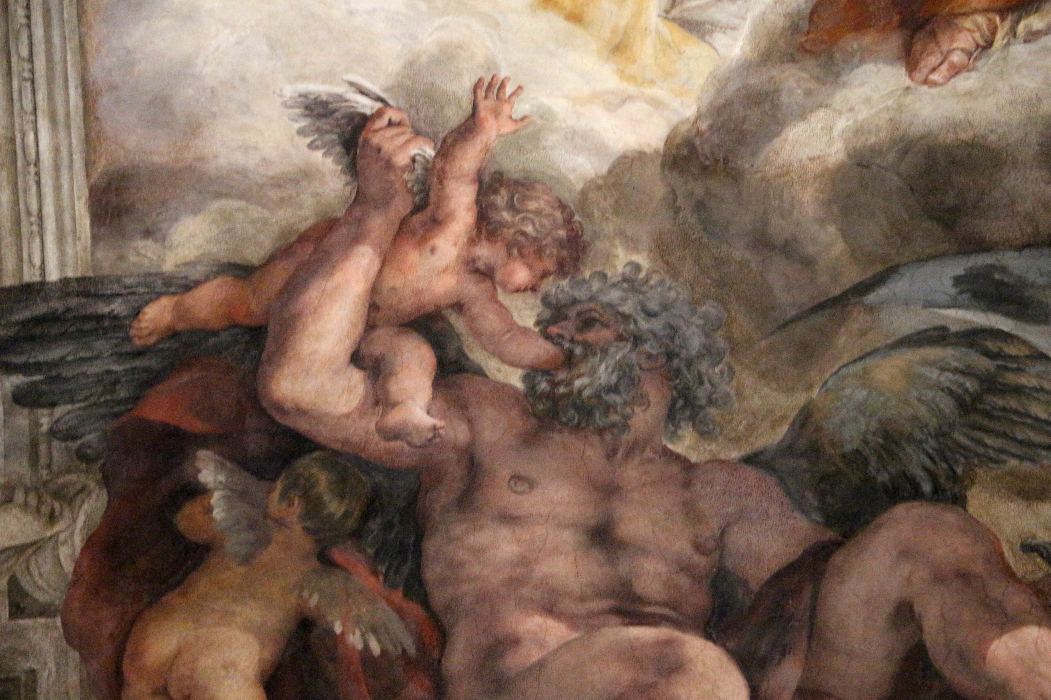 Triumph of the Divine Providence by Pietro da Cortona